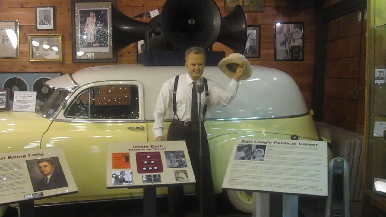 Earl Long exhibit at Louisiana Political Museum and Hall of Fame in Winnfield, LA